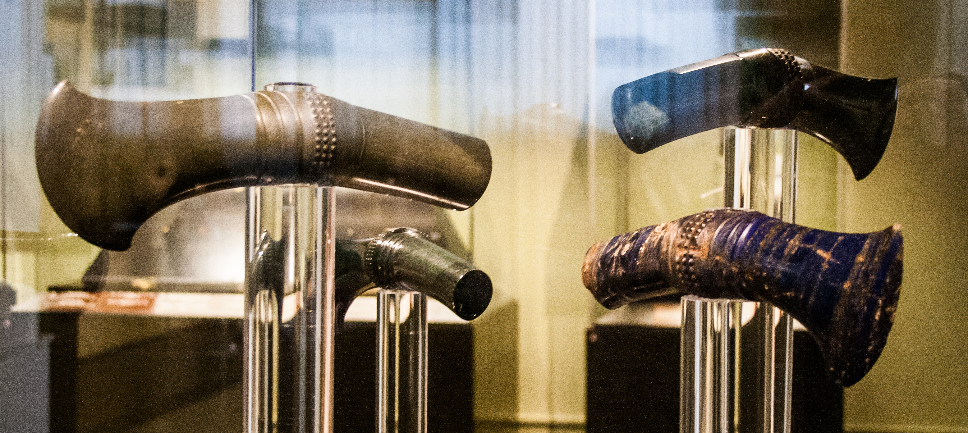 Ritual_Hammer-Axes were wide spread in Europe and the Caucasus from the Early Bronze Age until the end of the II Millennium B.C. Two of the four axes have the remains of gilding